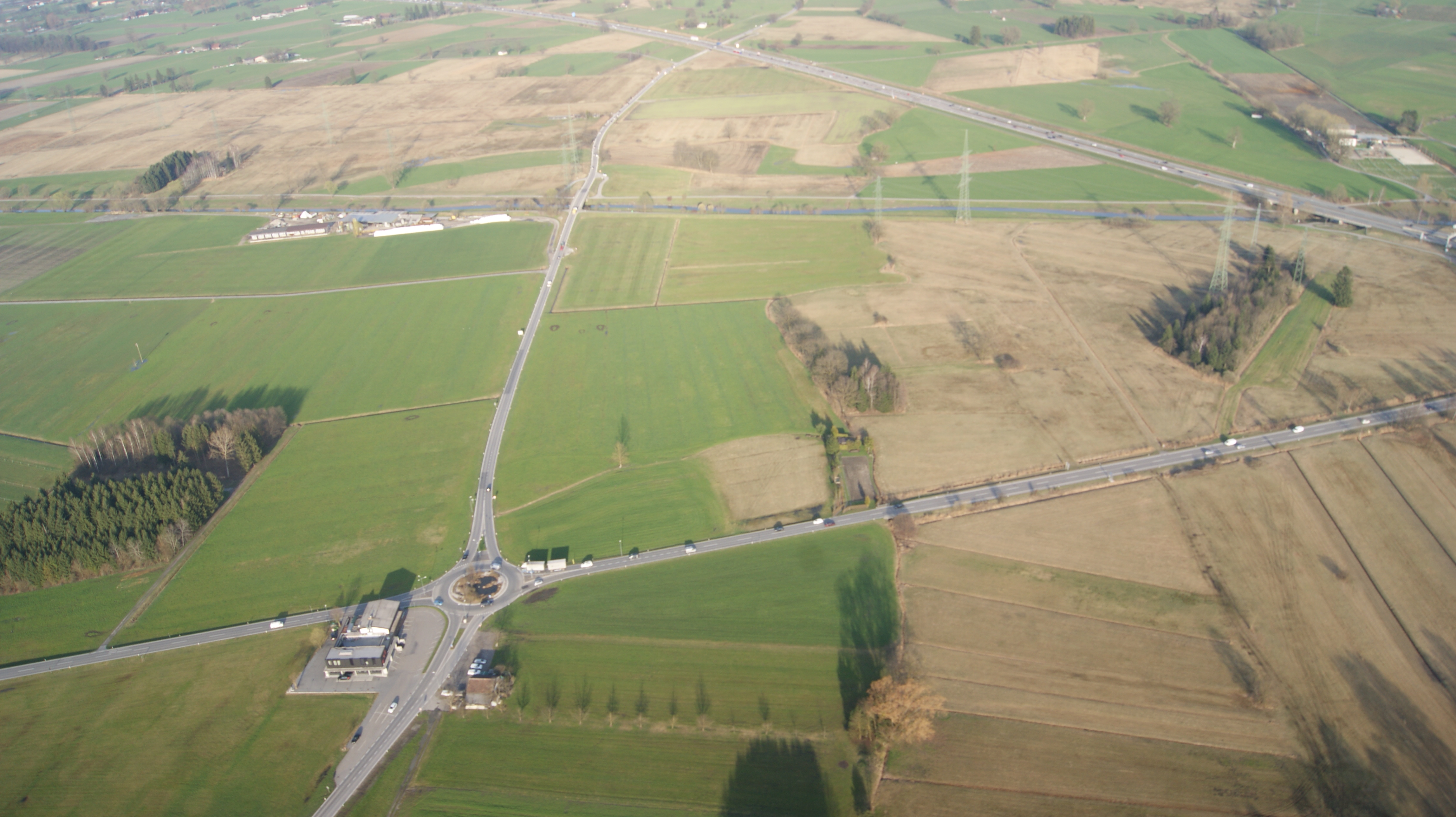 Aerial photograph of the Roundabout in Lustenau, Vorarlberg, Austria - Schweizerstrasse and Hohenemser Straße (L203). Left at the roundabout, the traditional Inn “Schweizerhaus”, at the time of photography an Asian restaurant. Across the picture the Motorway: "Rheintalautobahn" (A14/E60/E43).